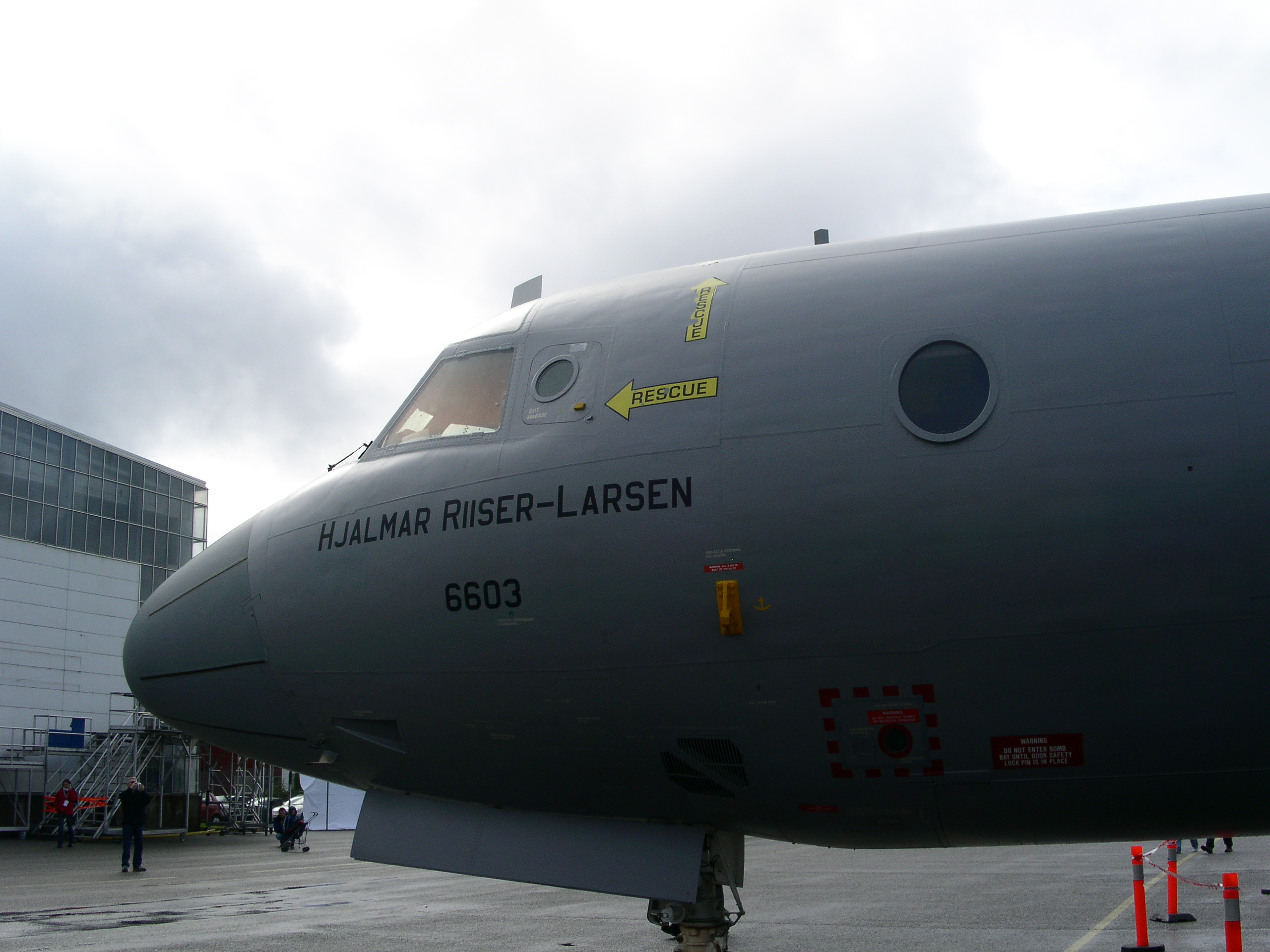 A Lockheed P-3N Orion from the Royal Norwegian Air Force at Bergen Airport Flesland, during Bergen Air Show in 2005.